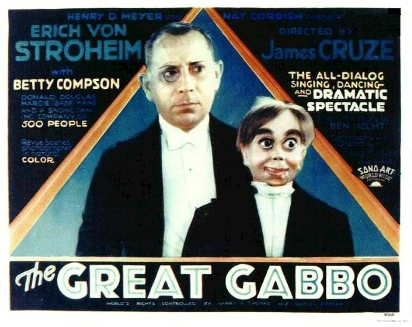 Poster for the American drama film The Great Gabbo (1929). A renewal search was done for films and for artwork for the years 1956 and 1957. There were no listings for this title. There's no evidence of renewal for the material. When a larger copy is found, it may prove that the poster had no copyright marks and could be licensed as pre-1978.